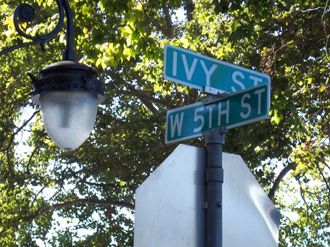 This is an image of the street signs at the corner of Fifth and Ivy Streets in Chico. This intersection is the neighborhood commercial core of the South Campus Neighborhood.